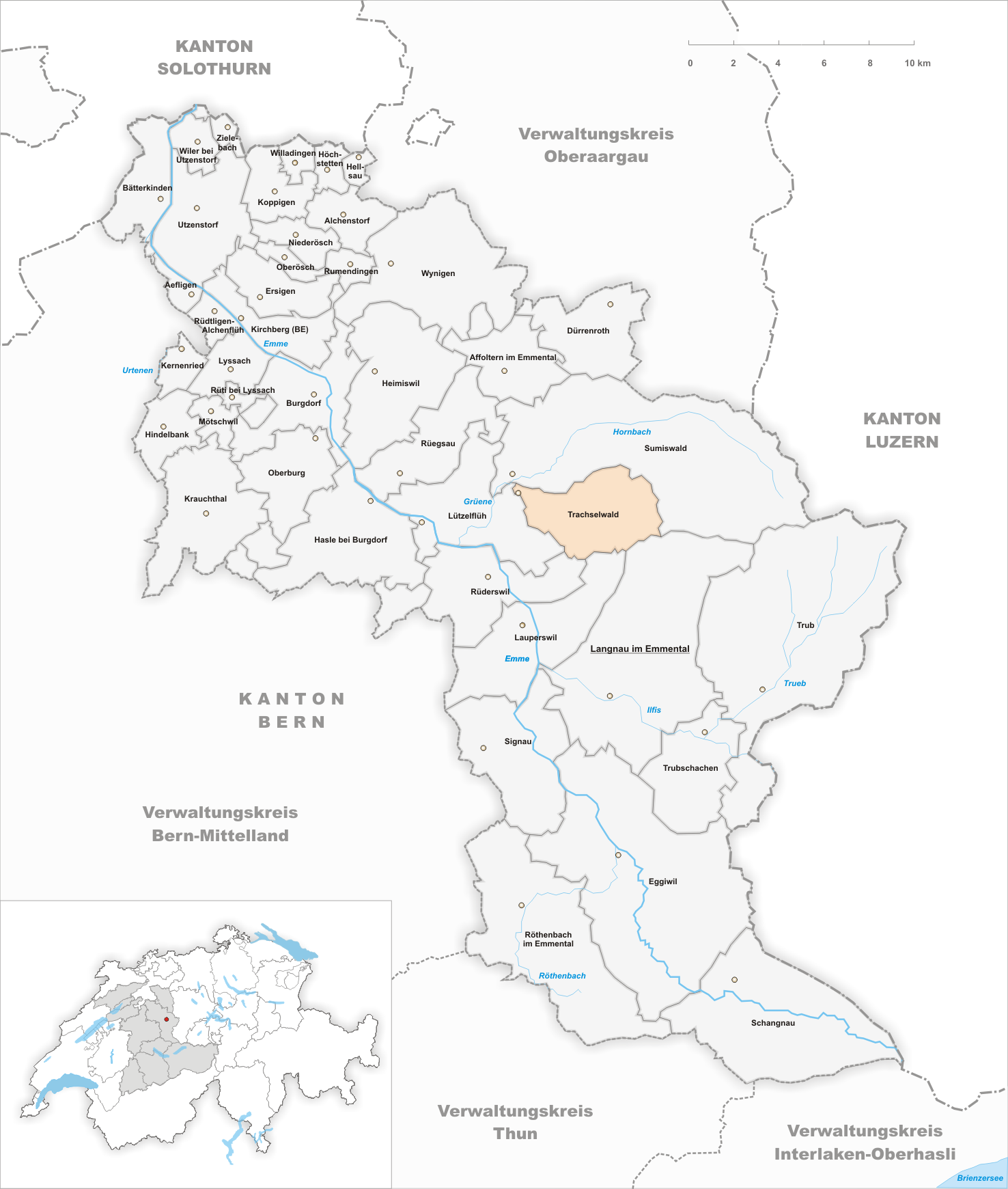 Municipality Trachselwald